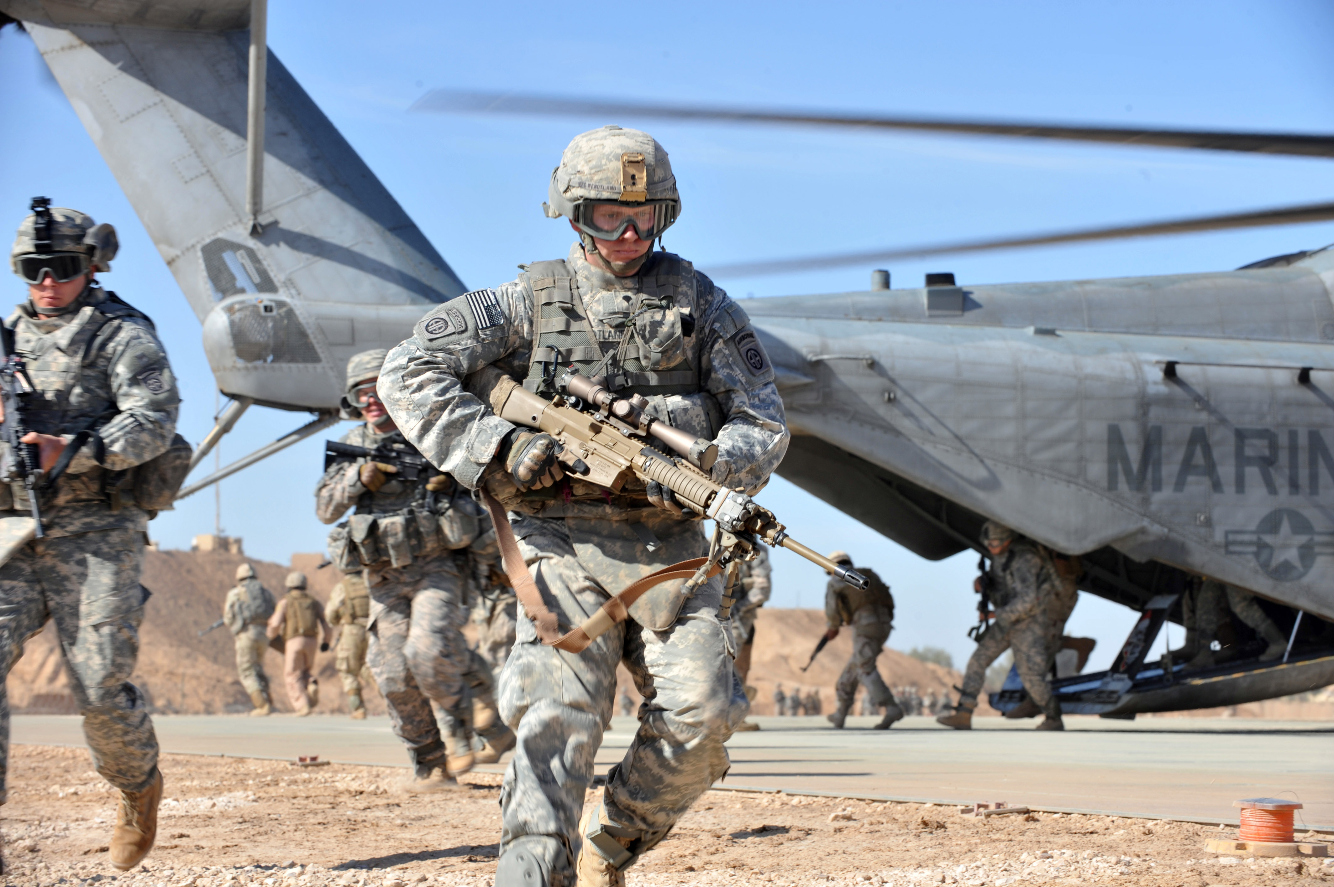 A U.S. Army soldier of the 2nd Battalion, 504th Parachute Infantry Regiment, 1st Brigade Combat Team, 82nd Airborne Division runs over to provide security after unloading from a CH-53 Sea Stallion helicopter during a static loading exercise at Camp Ramadi, Iraq, on Nov. 15, 2009. U.S. soldiers and Marines and Iraqi soldiers are training together, loading and unloading on a Sea Stallion to prepare for upcoming missions.